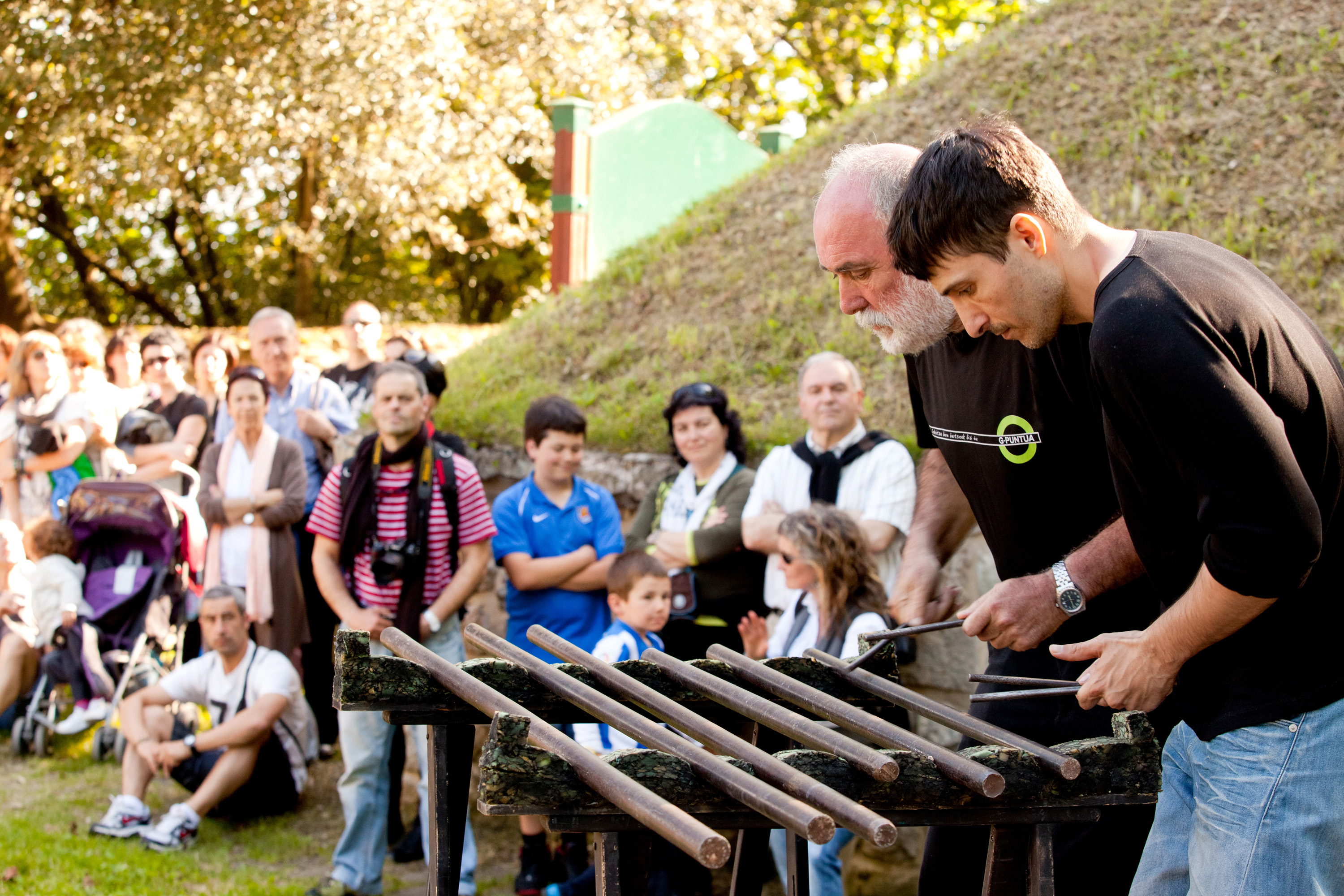 Juan Mari Beltran playing tobera.